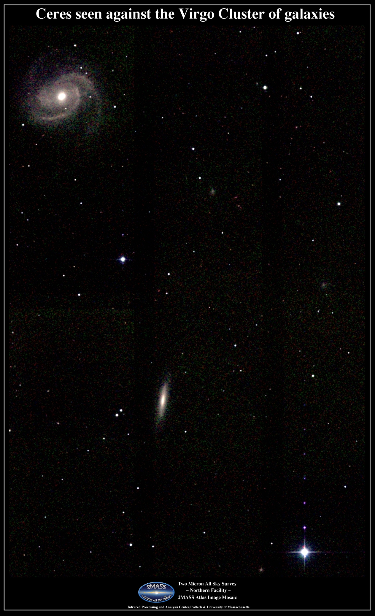 Atlas Image mosaic of the largest asteroid in the Solar System, 1 Ceres, seen against the Virgo Cluster of galaxies on 2000 Apr 6 UT during routine operations of the northern 2MASS facility on Mt. Hopkins, AZ. The asteroid is seen about 13.7´ west and 25.6´ south of the large spiral galaxy M100. Ceres is quite bright in this image, with Ks=5.50, J-H=0.37, and H-Ks=0.09 mag. Purplish known persistence artifacts trail (in decreasing brightness) due north of the asteroid. The fainter reddish "star" immediately east of due north, and the fainter whitish "star" immediately west of due south of the asteroid are known 2MASS "filter glint" artifacts. Sykes et al. (2000, Icarus, 146, 161) have studied asteroids detected by 2MASS, and the colors for Ceres are consistent with those for other C-type (carbonaceous chondritic) asteroids. The 2MASS Second Incremental Data Release Point Source Catalog contains 3804 associations with known asteroids. (Field size 20´ × 31´. Image size 1.7 Mb!)